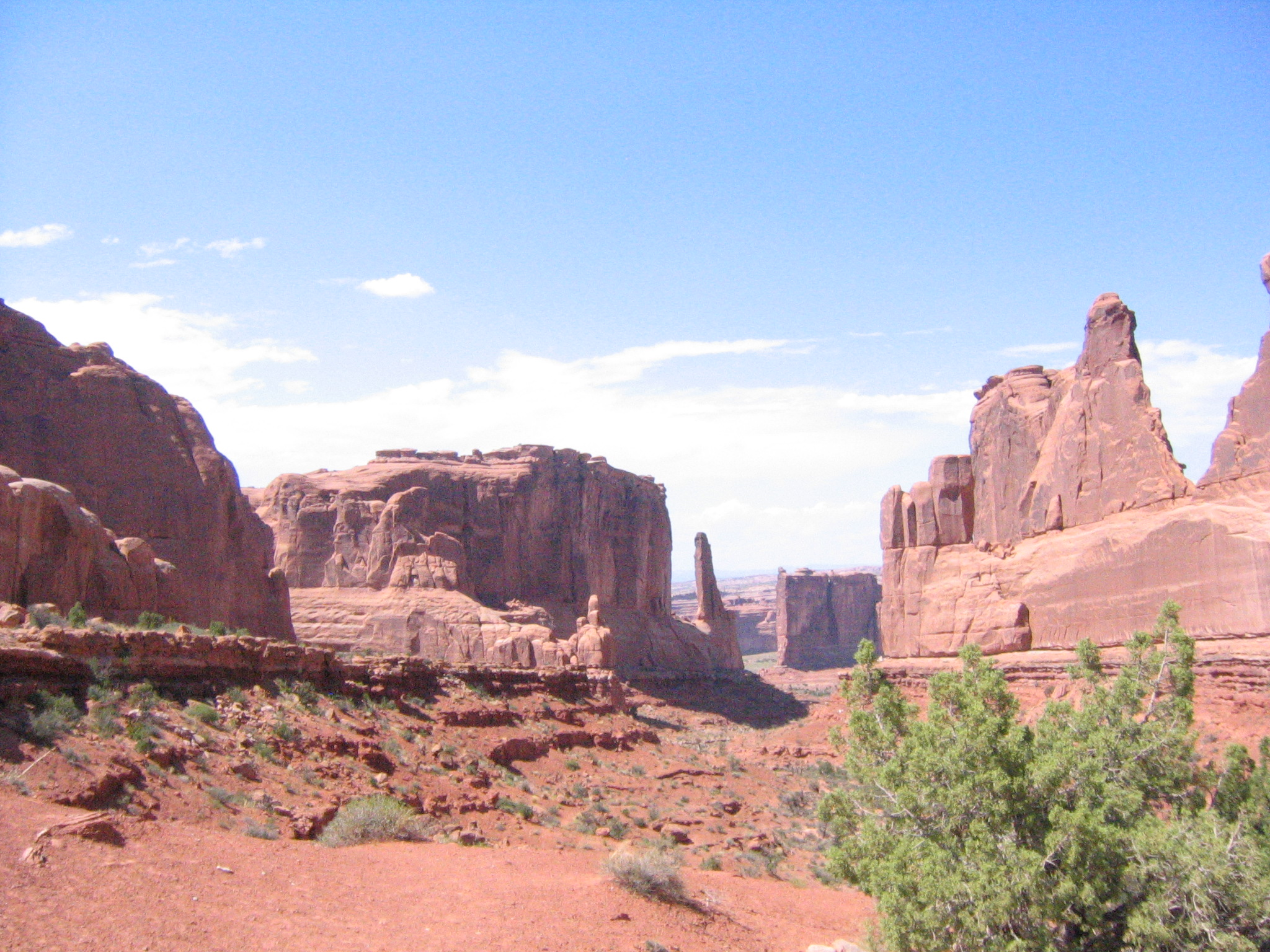 Arches national park